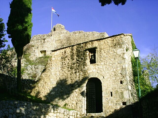 Town of Imotski, Croatia